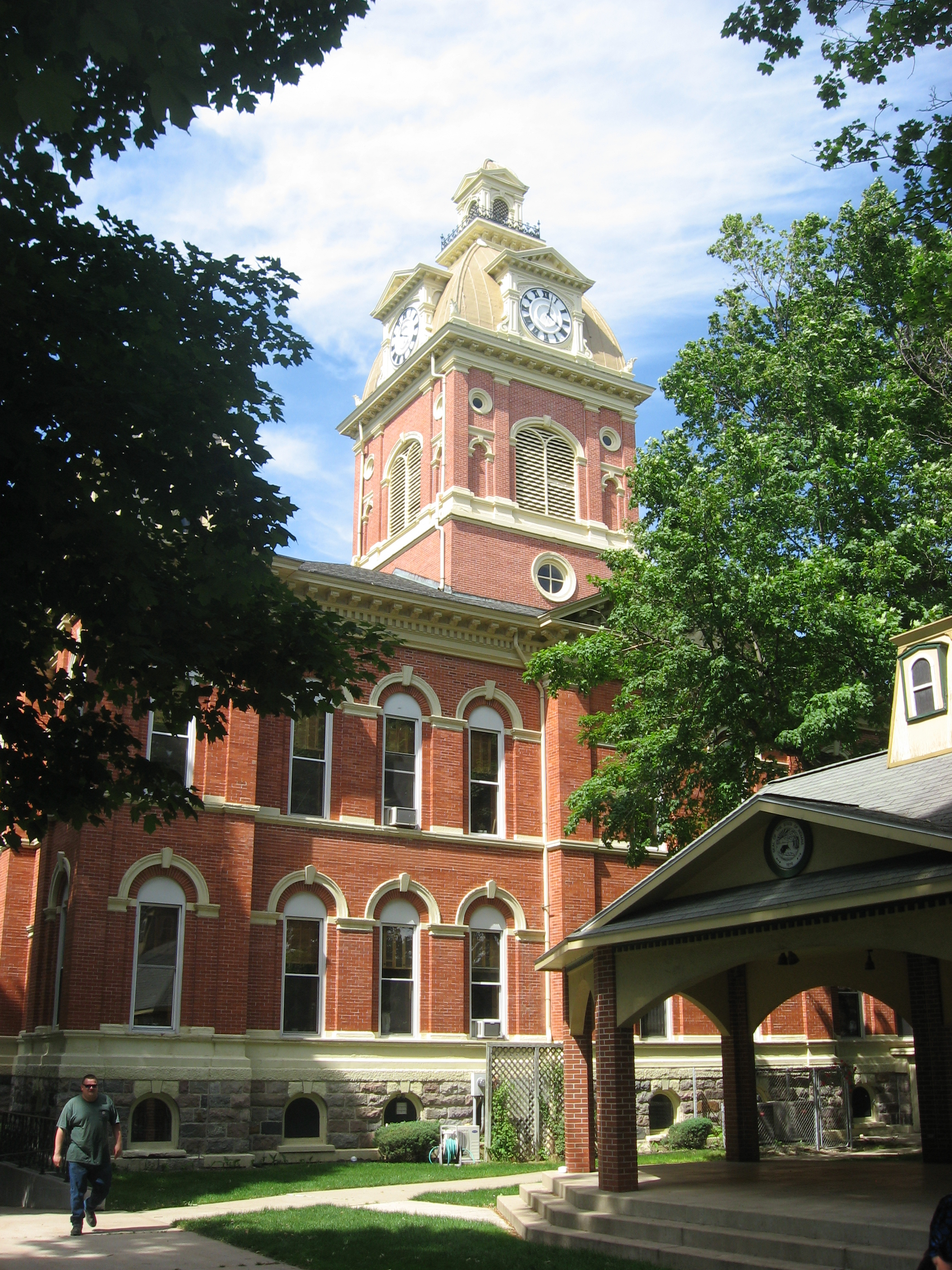 Southern front of the LaGrange County Courthouse, located on Courthouse Square in downtown LaGrange, Indiana, United States. Built in 1878, it is listed on the National Register of Historic Places.